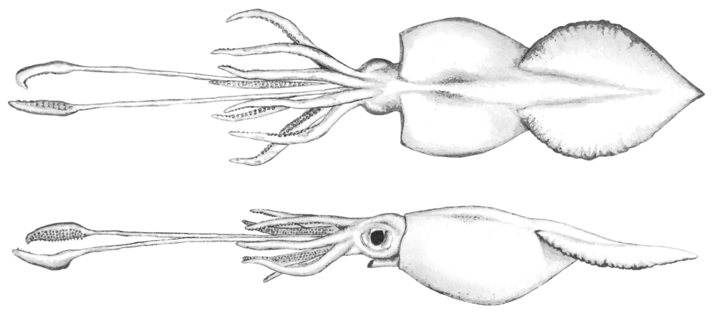 Biological depiction of the colossal squid